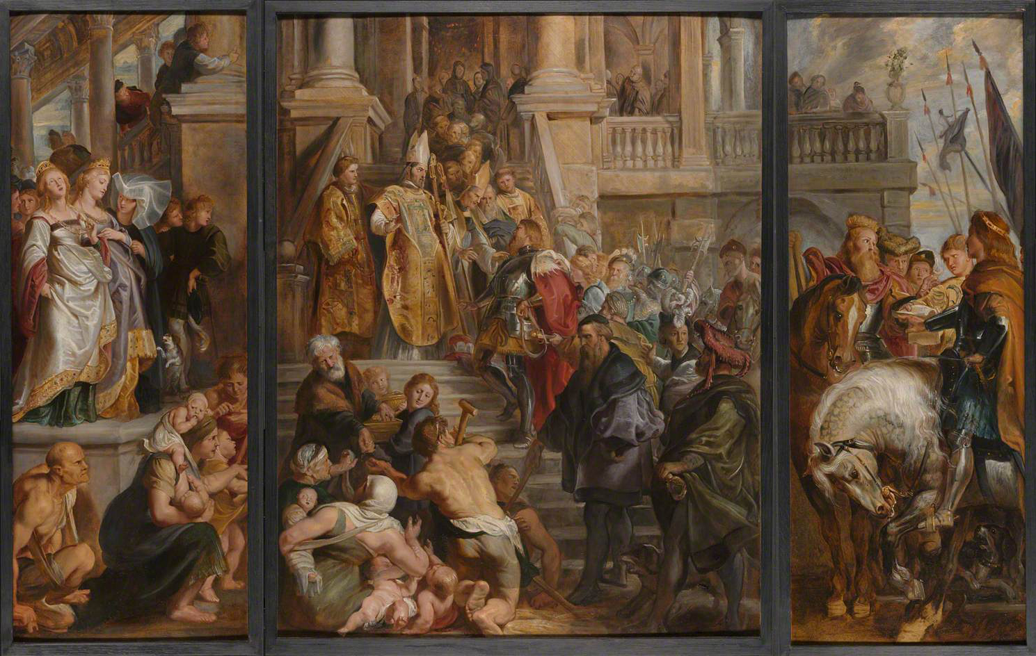 Oil sketch for altarpiece in the St. Bavo cathedral in Ghent.